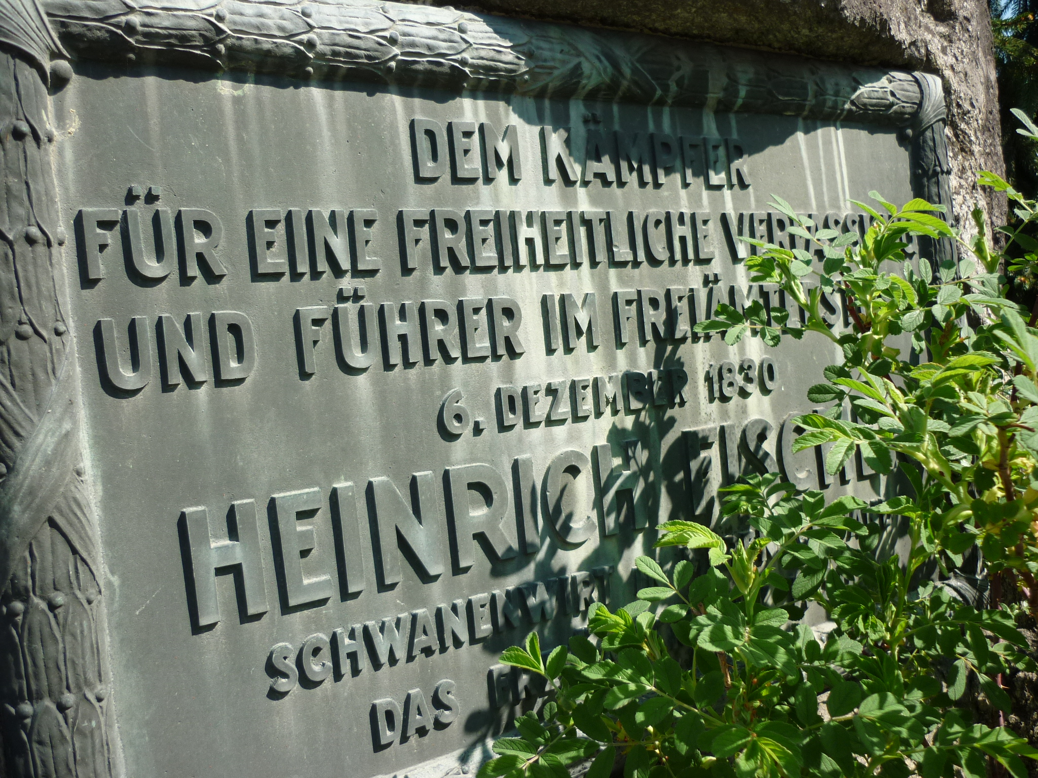 Commemorative plaque for Johann Heinrich Fischer, Merenschwand AG, Switzerland Gedenktafel für Johann Heinrich Fischer, Merenschwand AG, Schweiz